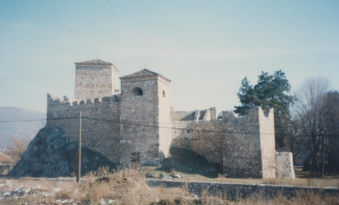 Fortress in Pirot Momcilov grad